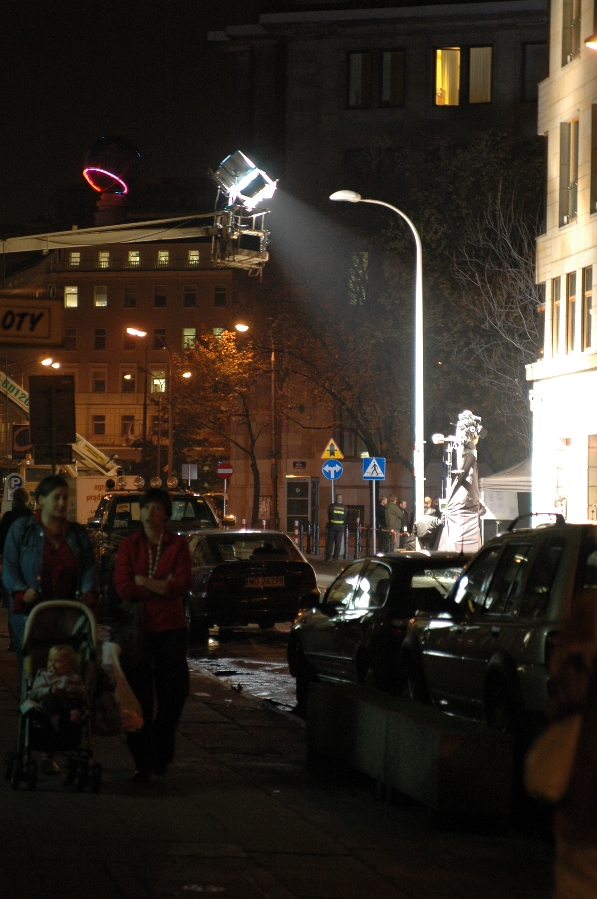 A film being made in Warsaw, Bracka street